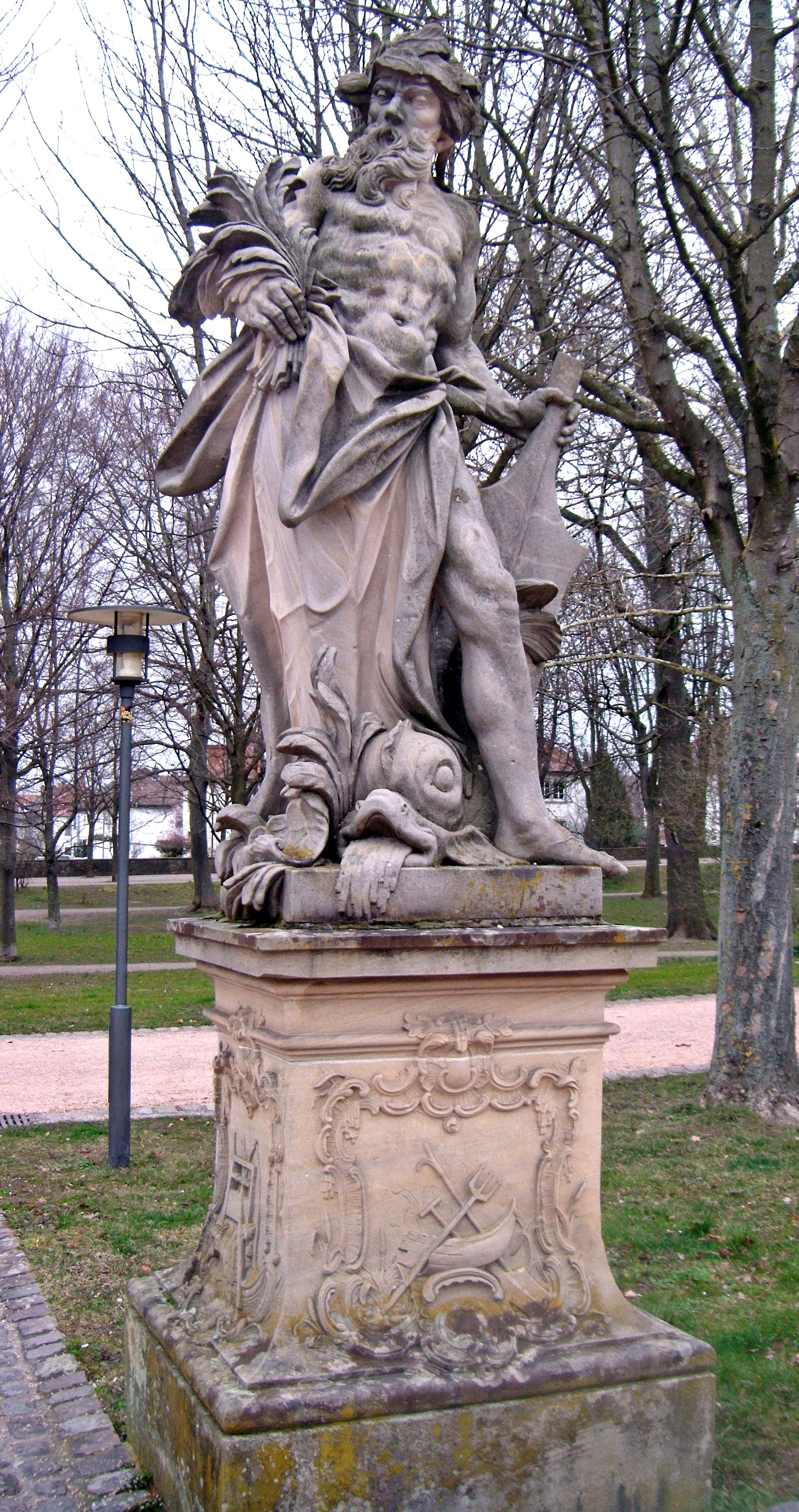 Schlosspark Bruchsal, "Das Wasser", Figur von Joachim Günther